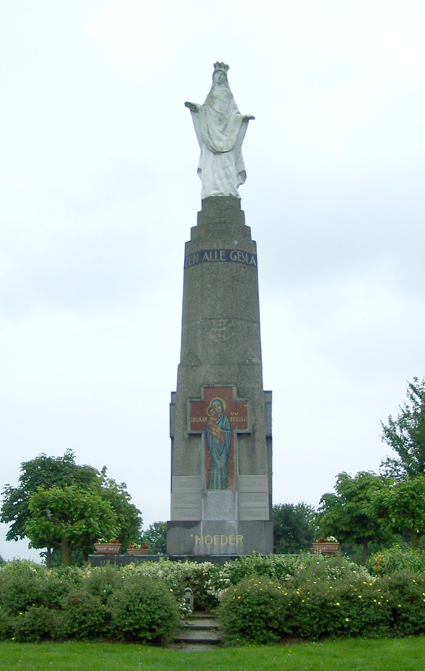 Monument of Maria, designed by Piet Gerrits with a sculpture of Maria by Charles Vos in 1935. Placed at the Gulpenerberg in Gulpen.